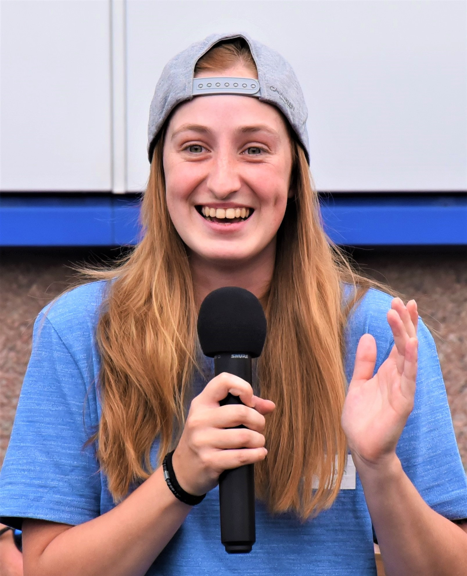 Barbora Piešová, Winner of the Czech&Slovak SuperStar competition (2020)